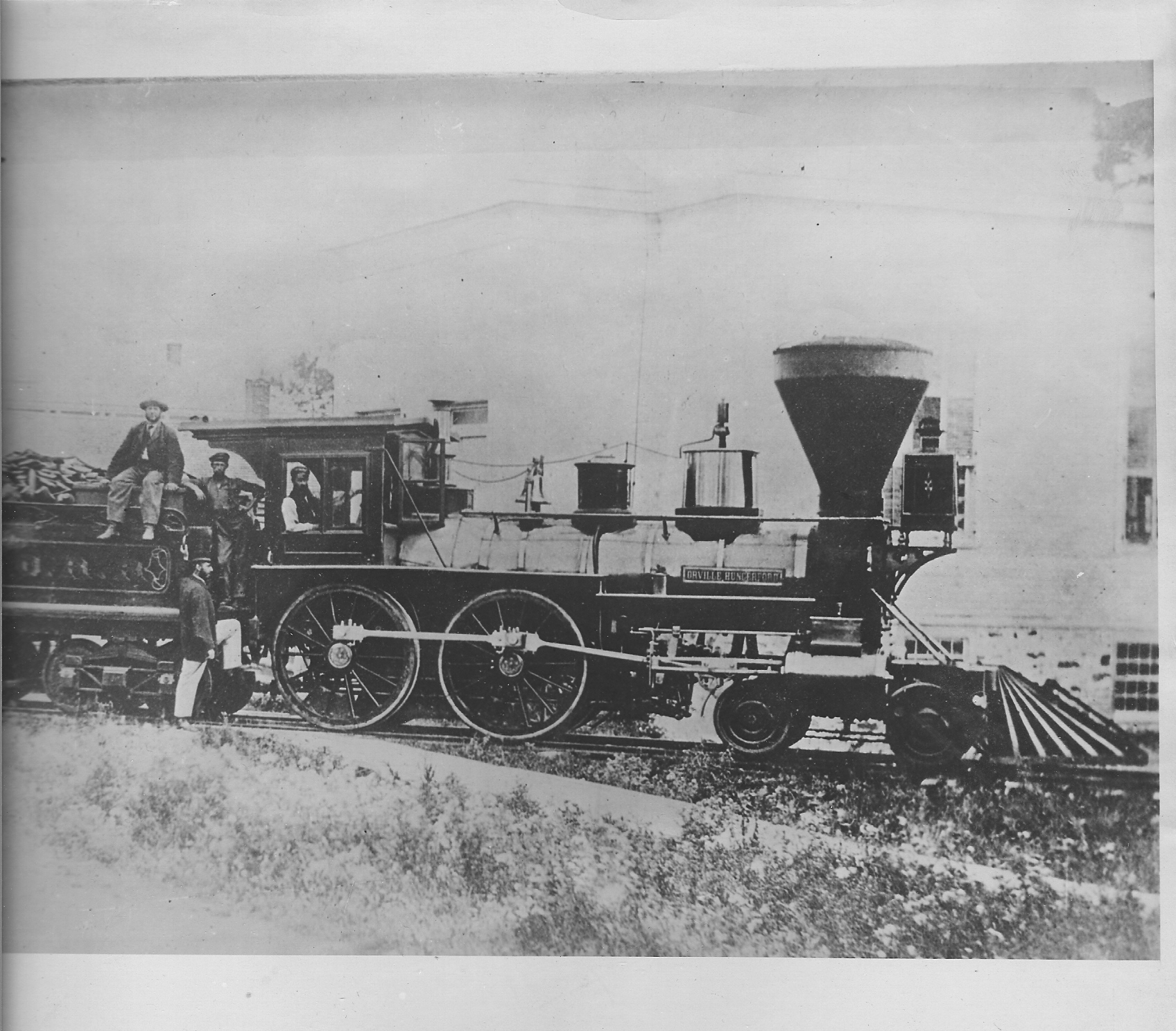 Photo of a train named Orville Hungerford taken probably in the 1860s.